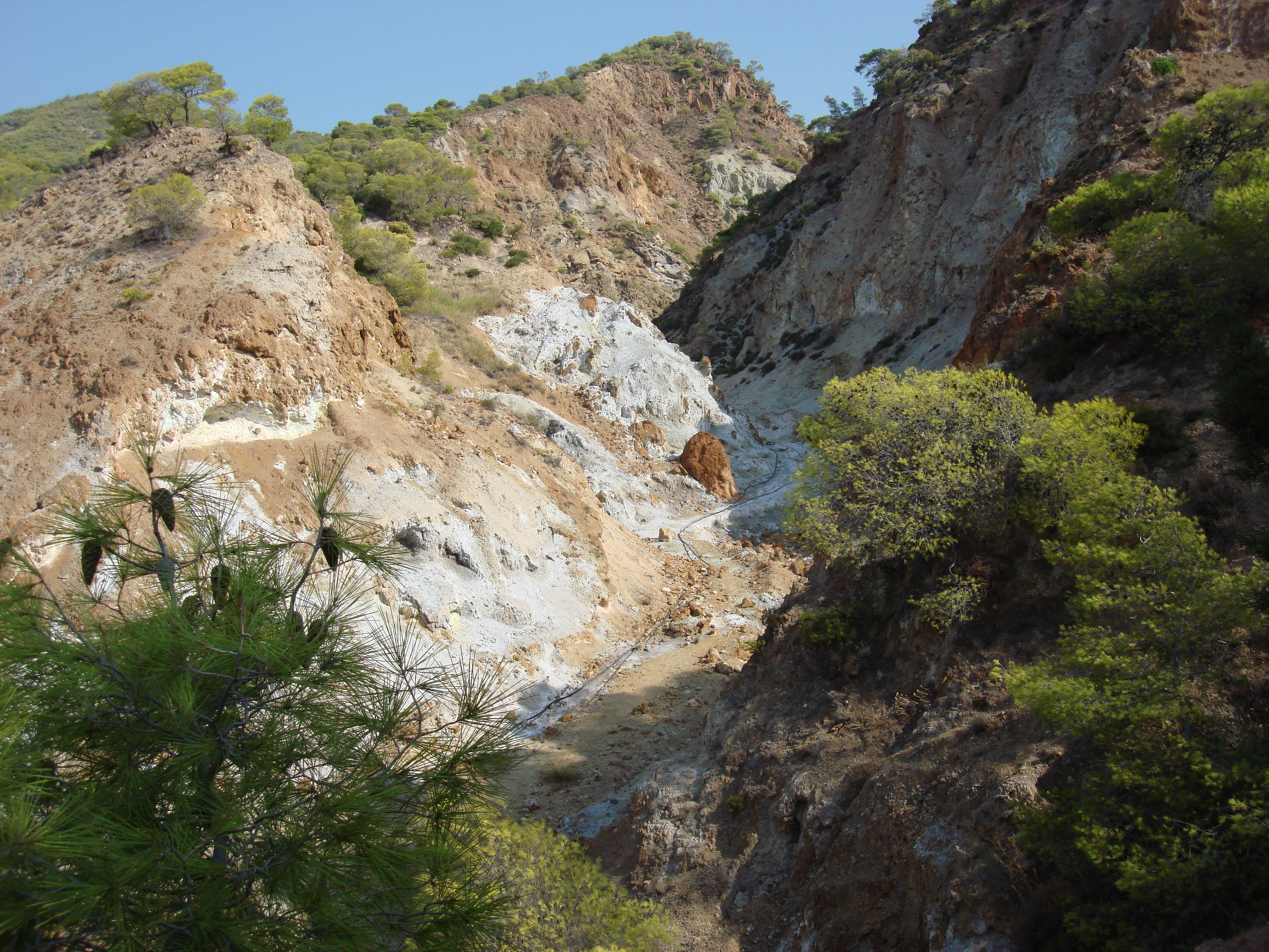 Theiochoma (sulfur-soil) canyon, Sousaki, Greece